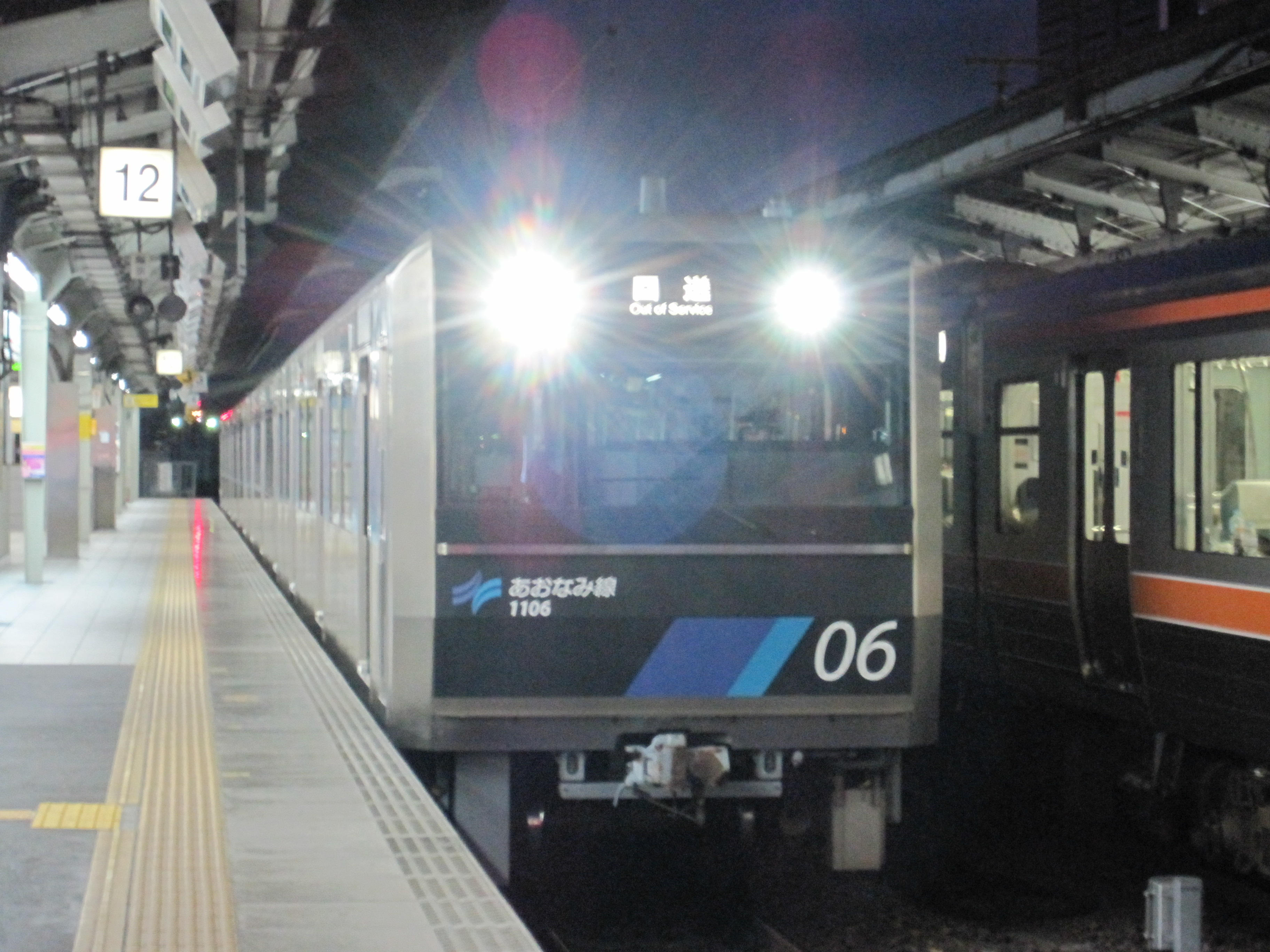 Aonami Line 1000 series 4-car EMU set 06 at Platform No.12 in Nagoya Station